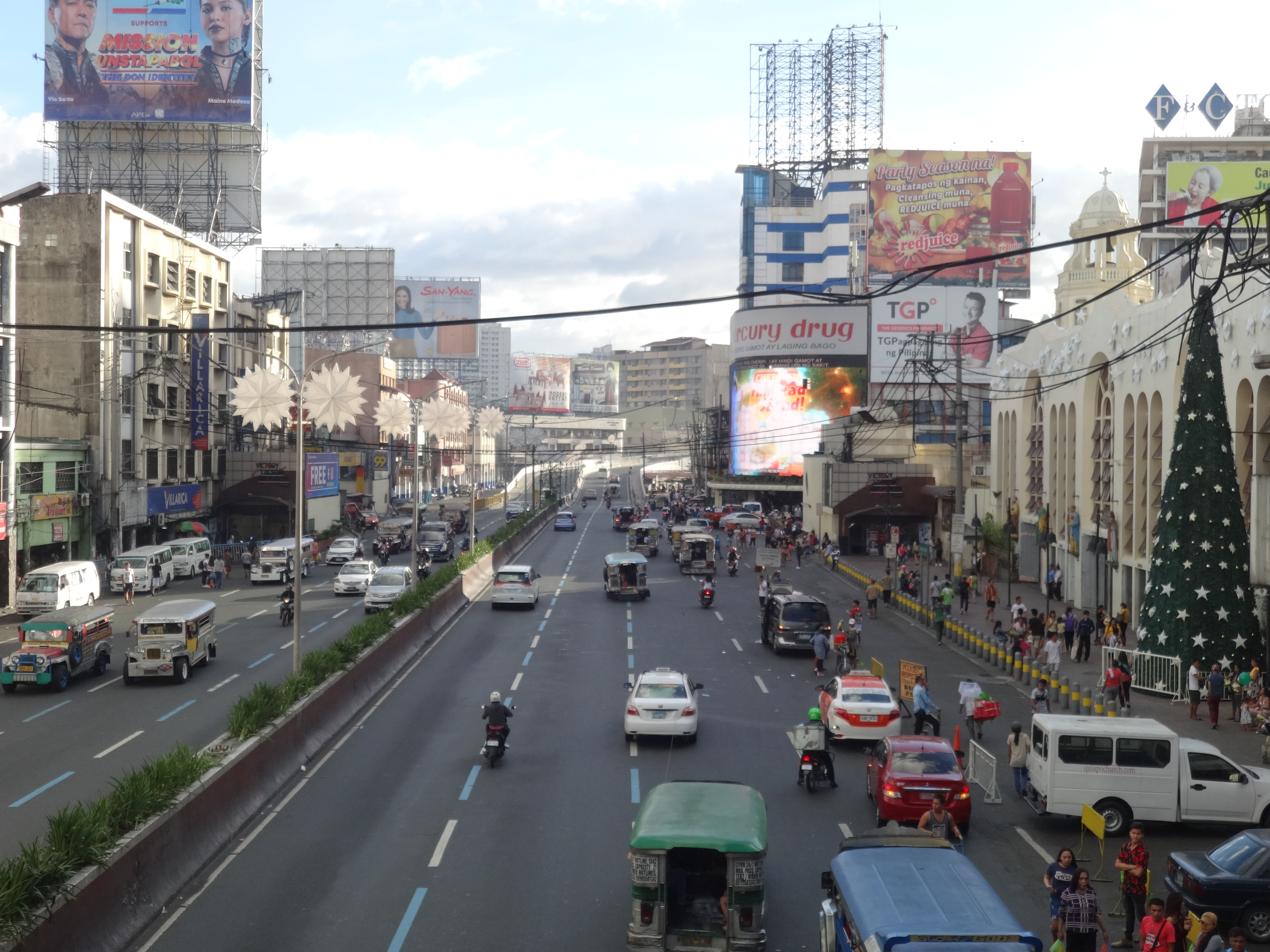 Quezon Boulevard in Quiapo, Manila